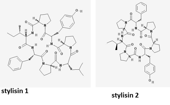 Stylisin 1 and 2